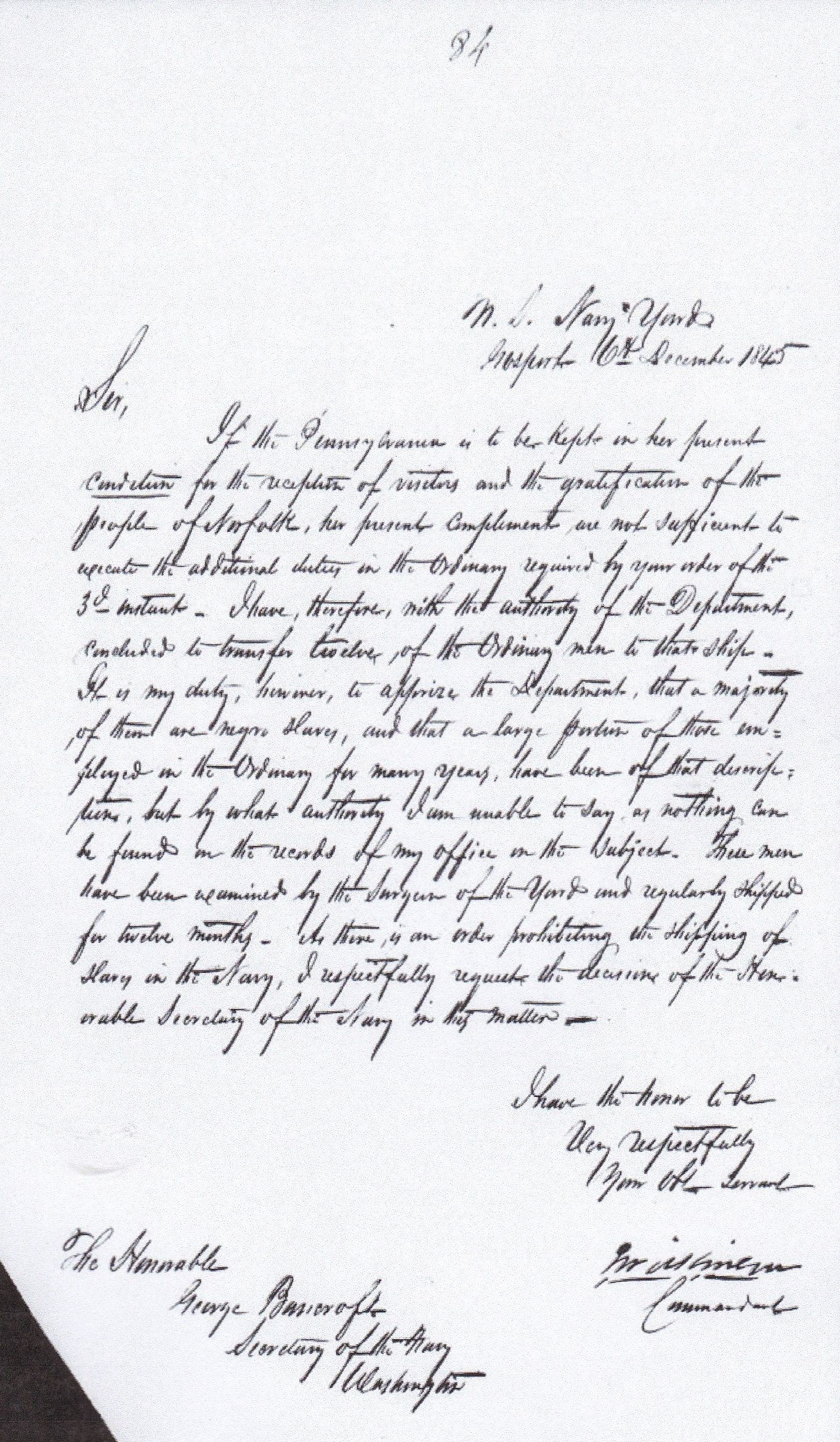 This letter reveals enslaved workers at Norfolk Navy Yard were assigned as “Landsmen” and “Ordinary Seamen' on the payrolls of "the Ordinary”. On 6 December 1845 Commodore Jesse Wilkinson confirmed Norfolk Navy Yard long standing practice to the Secretary of the Navy, George Bancroft“that a majority of them [blacks] are negro slaves, and that a large portion of those employed in the Ordinary for many years, have been of that description, but by what authority I am unable to say as nothing can be found in the records of my office on the subject – These men have been examined by the Surgeon of the Yard and regularly Shipped [enlisted] for twelve months"